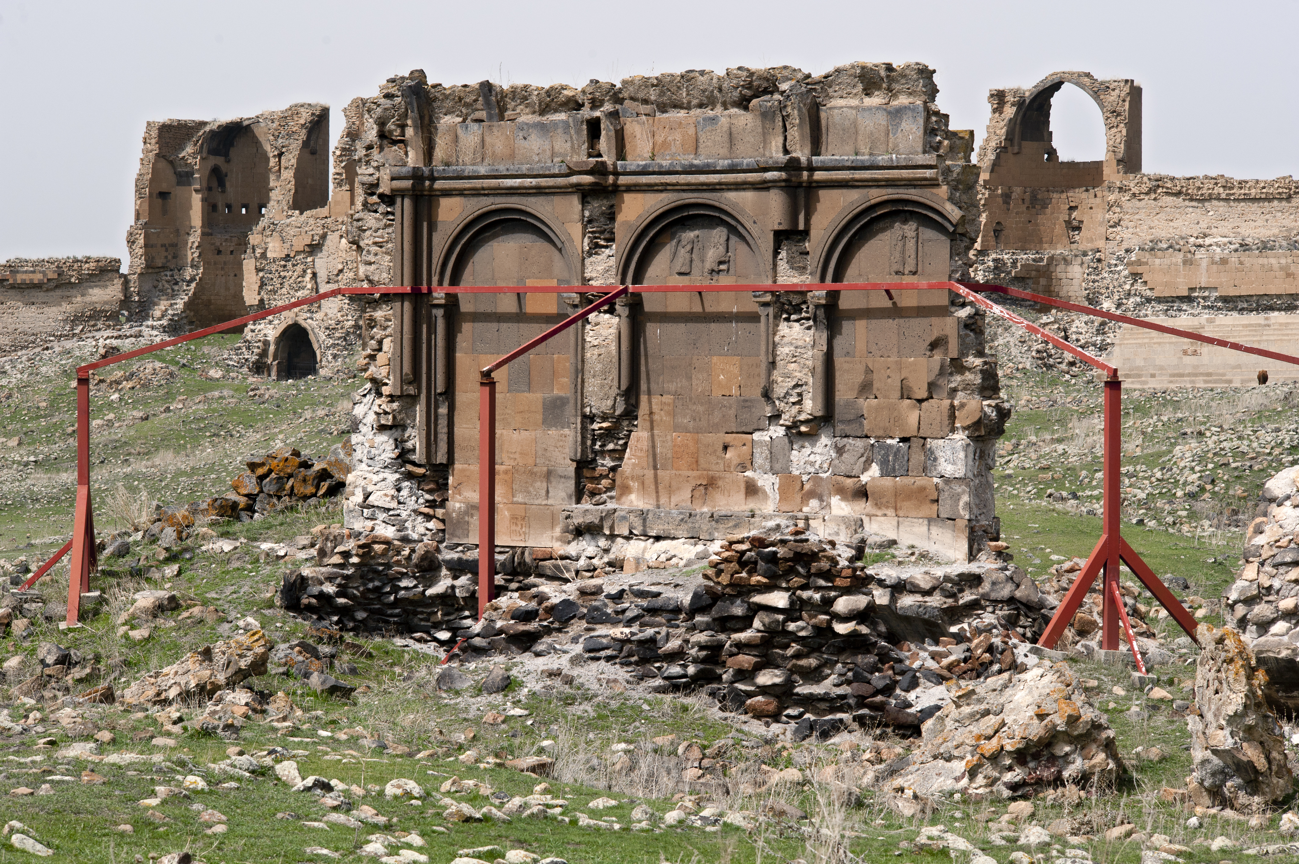 Georgian church, Ani, Turkey.